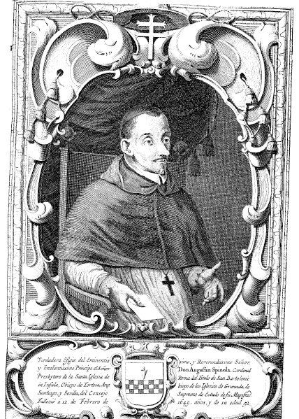 Agustín de Spínola Basadone (Genova, 1597 - Sevilla, 12 February 1649) was an Italian-Spanish archbishop and cardinal and statesman in the service of the Spanish king Philip IV.